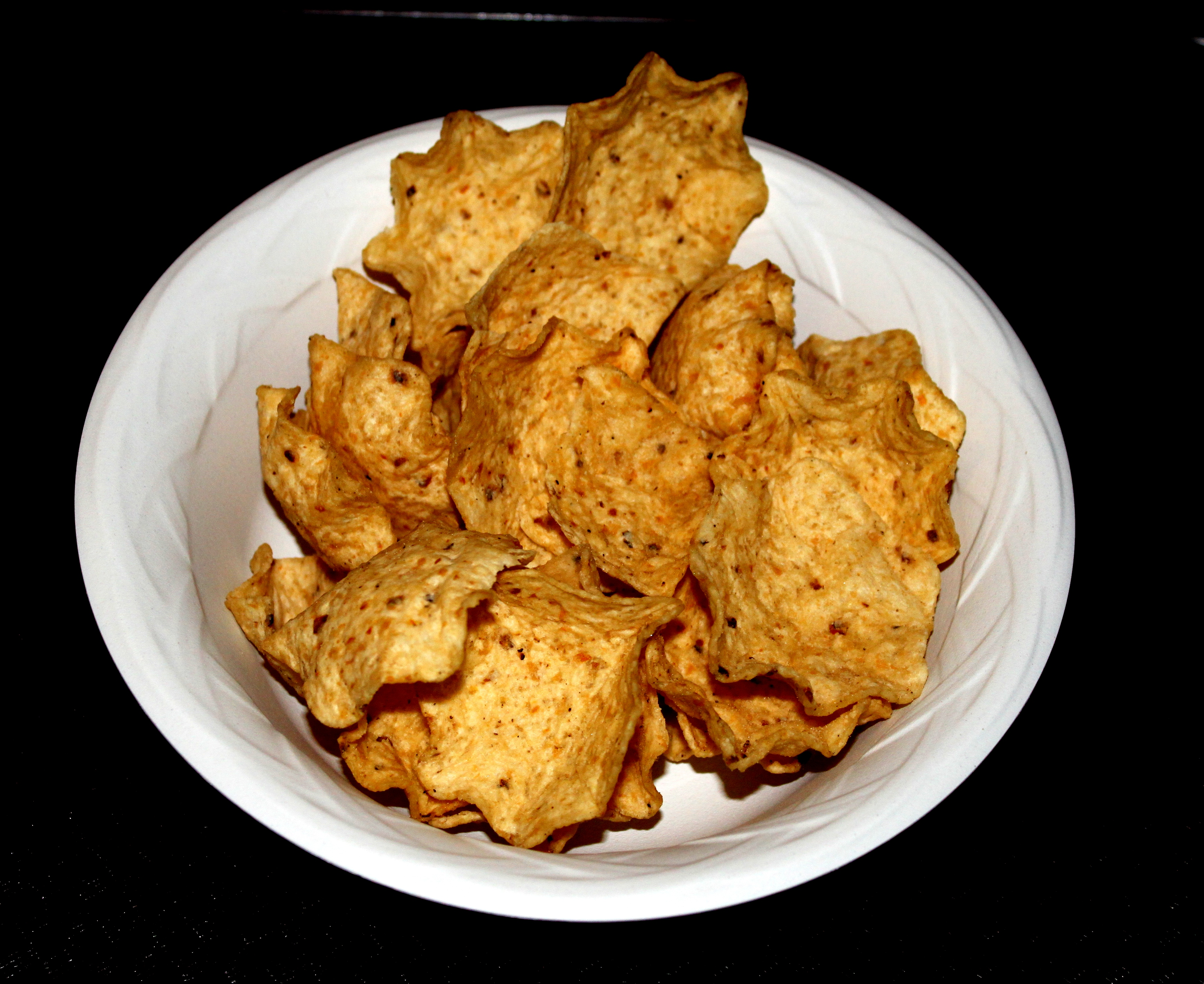 A bowl of Tostitos brand white corn "Scoops!" tortilla chips.